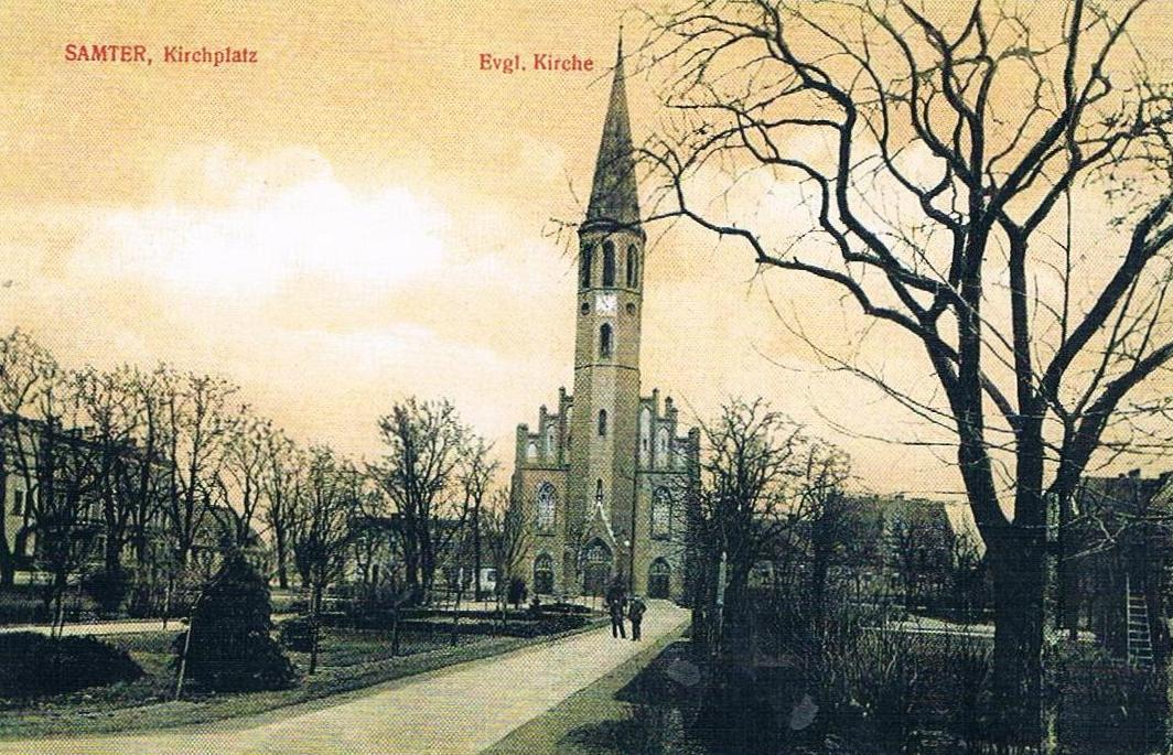 An evangelical church in Szamotuły, Poland. Demolished in 1958. German postcard, ca. 1915.